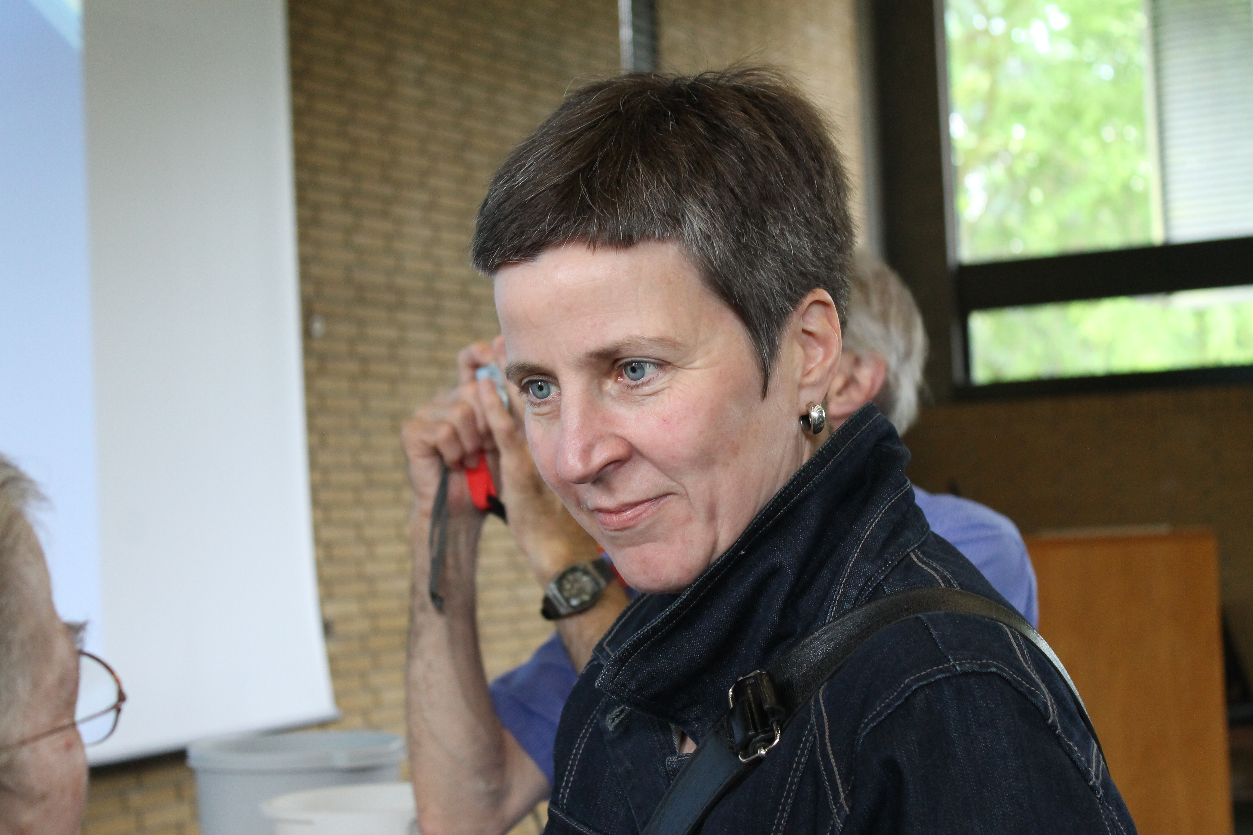 Cookery writer Ursula Heinzelmann at the Oxford Symposium on Food and Cookery, 2012.